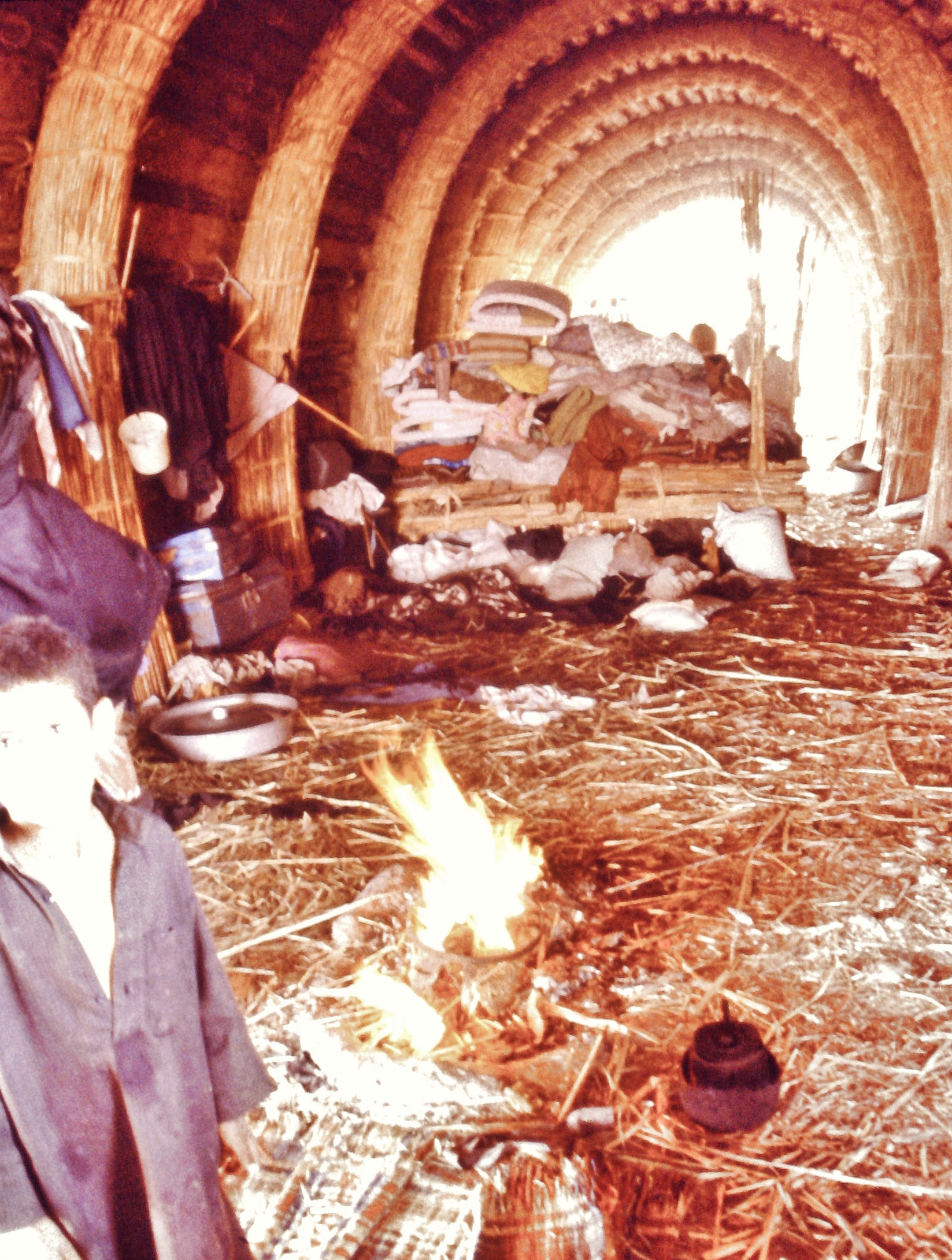 Swamp dwellers near Basra, Iraq 4